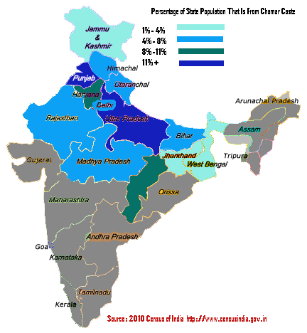 Population of chamars %